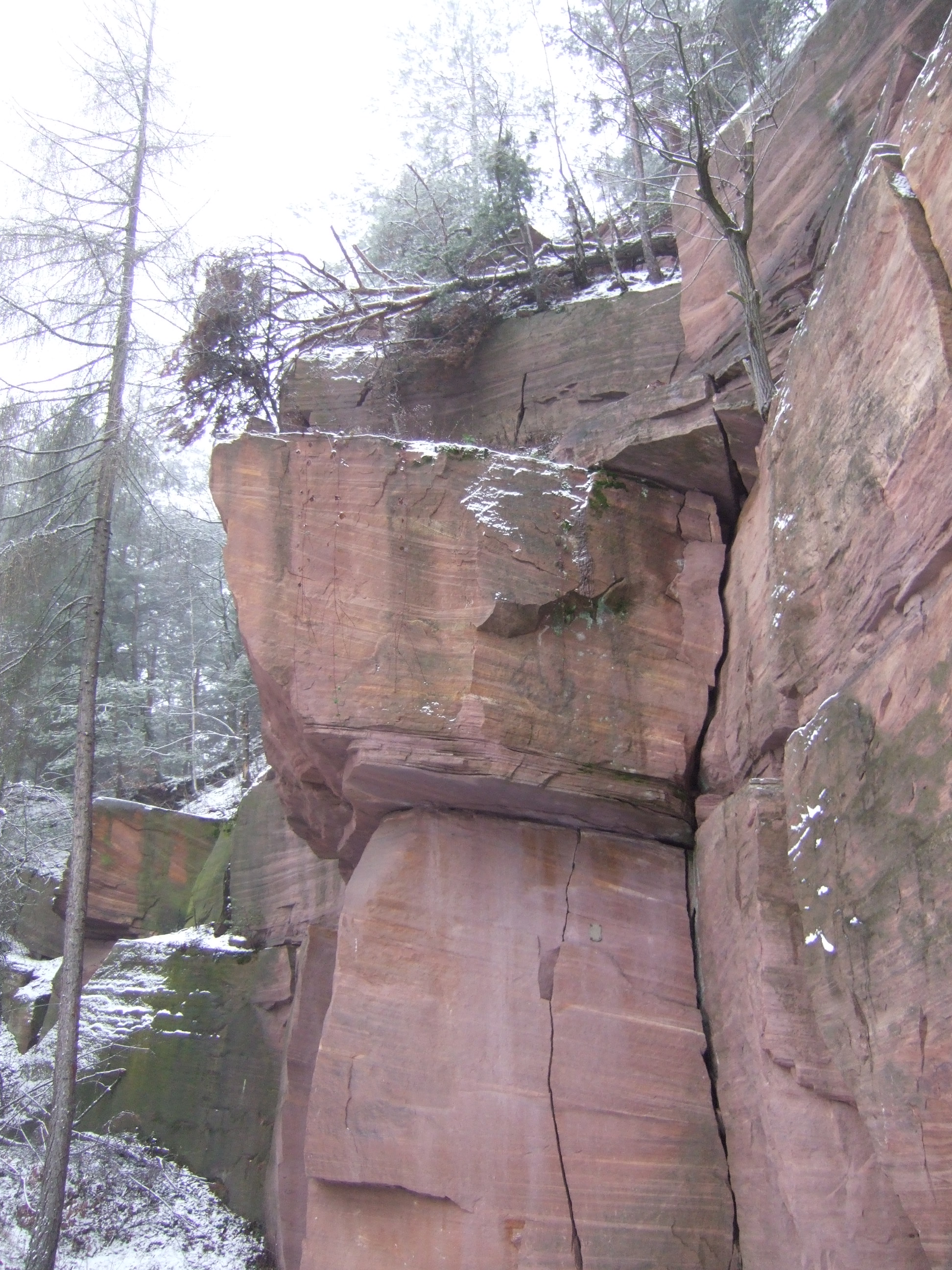 Ciosowa quarry, Świętokrzyskie Mountains, Poland